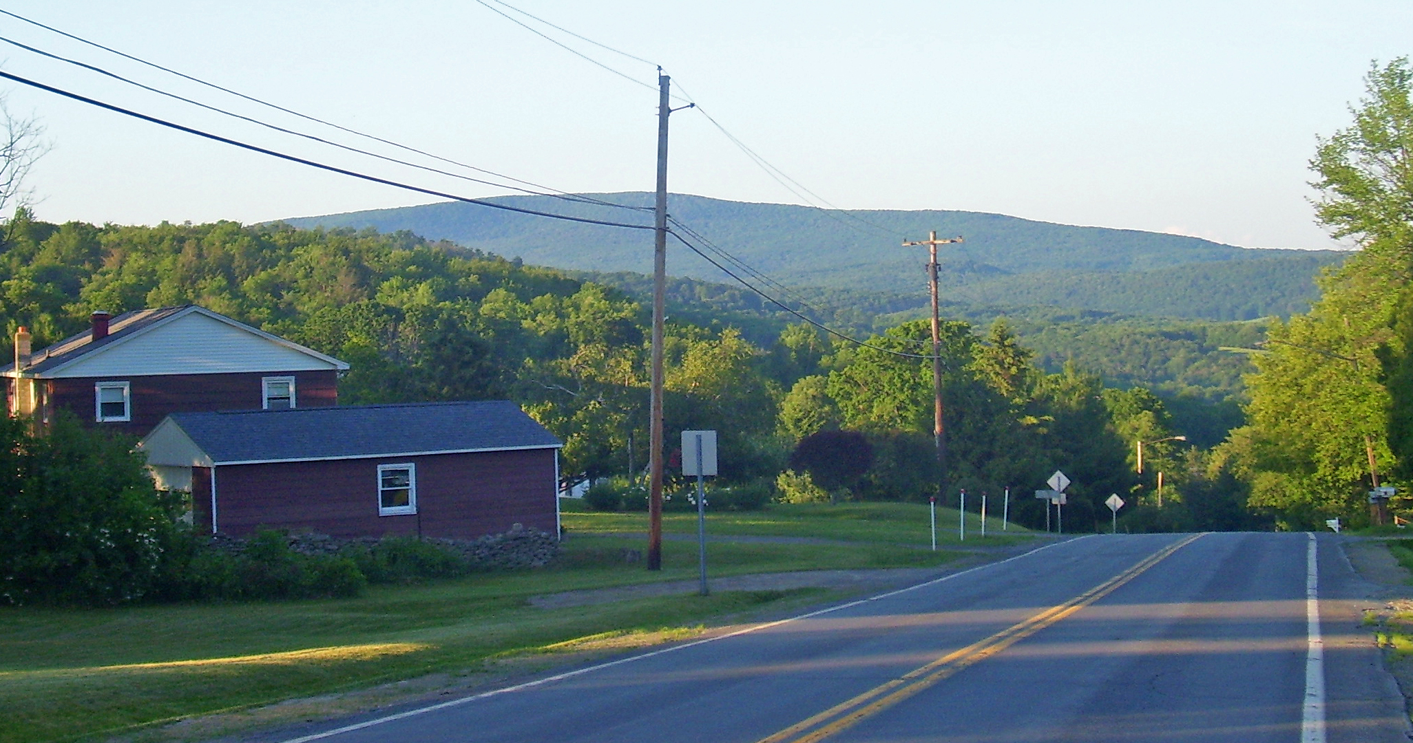 View east of Denman Mountain in the Catskills along NY 55 in Neversink, NY, USA